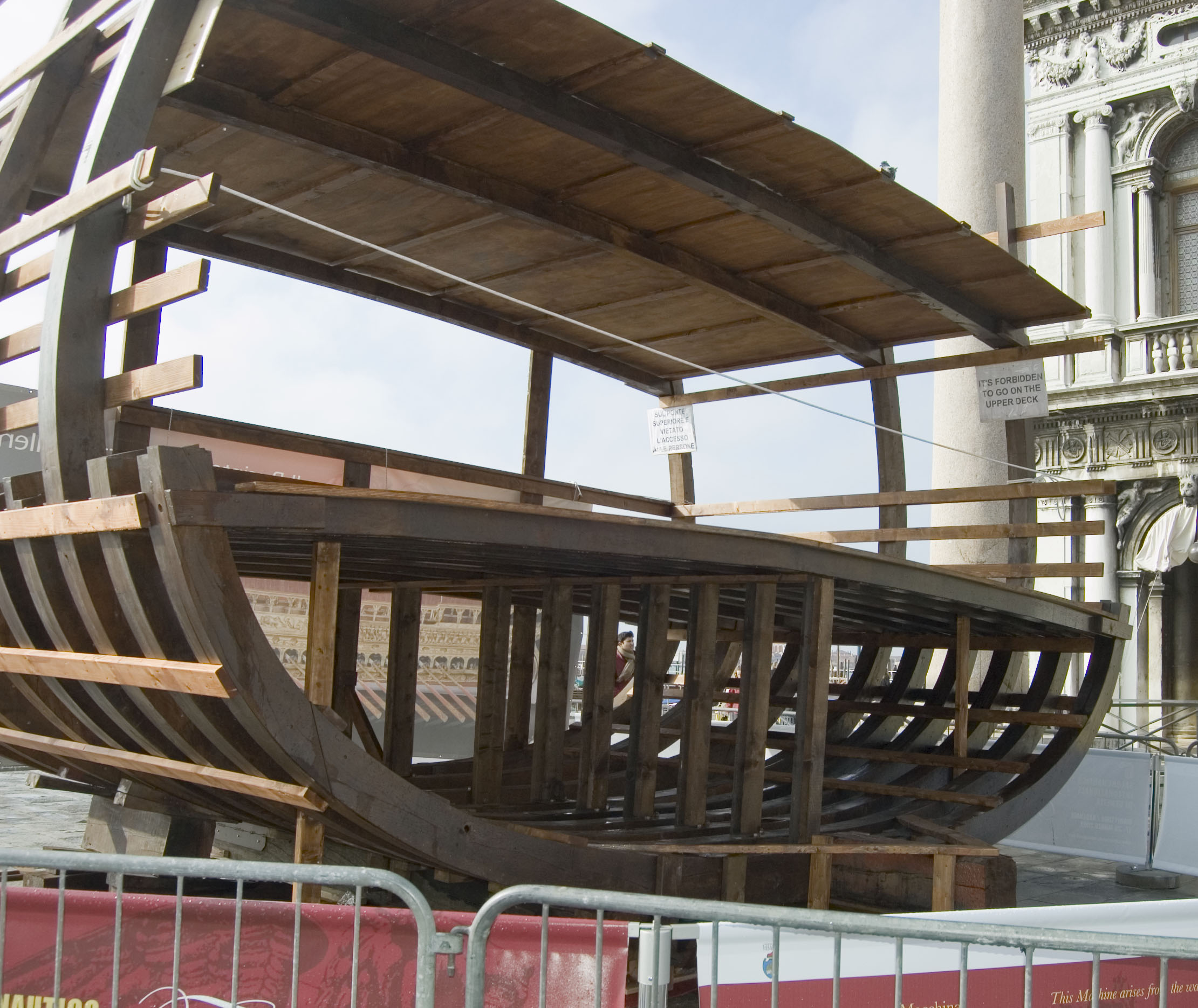 This is a cross section of a proposed reproduction of the Venitian State galley Bucintoro. It was displayed in St. Mark's Square.